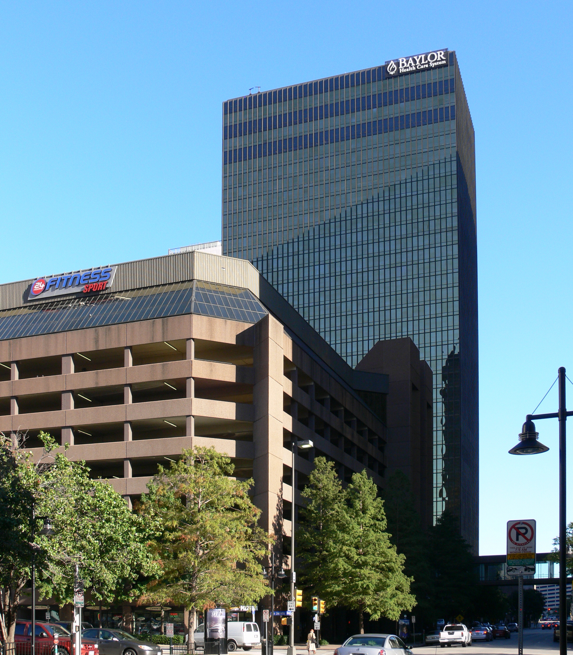 Bryan Tower and its parking garage (with fitness club)